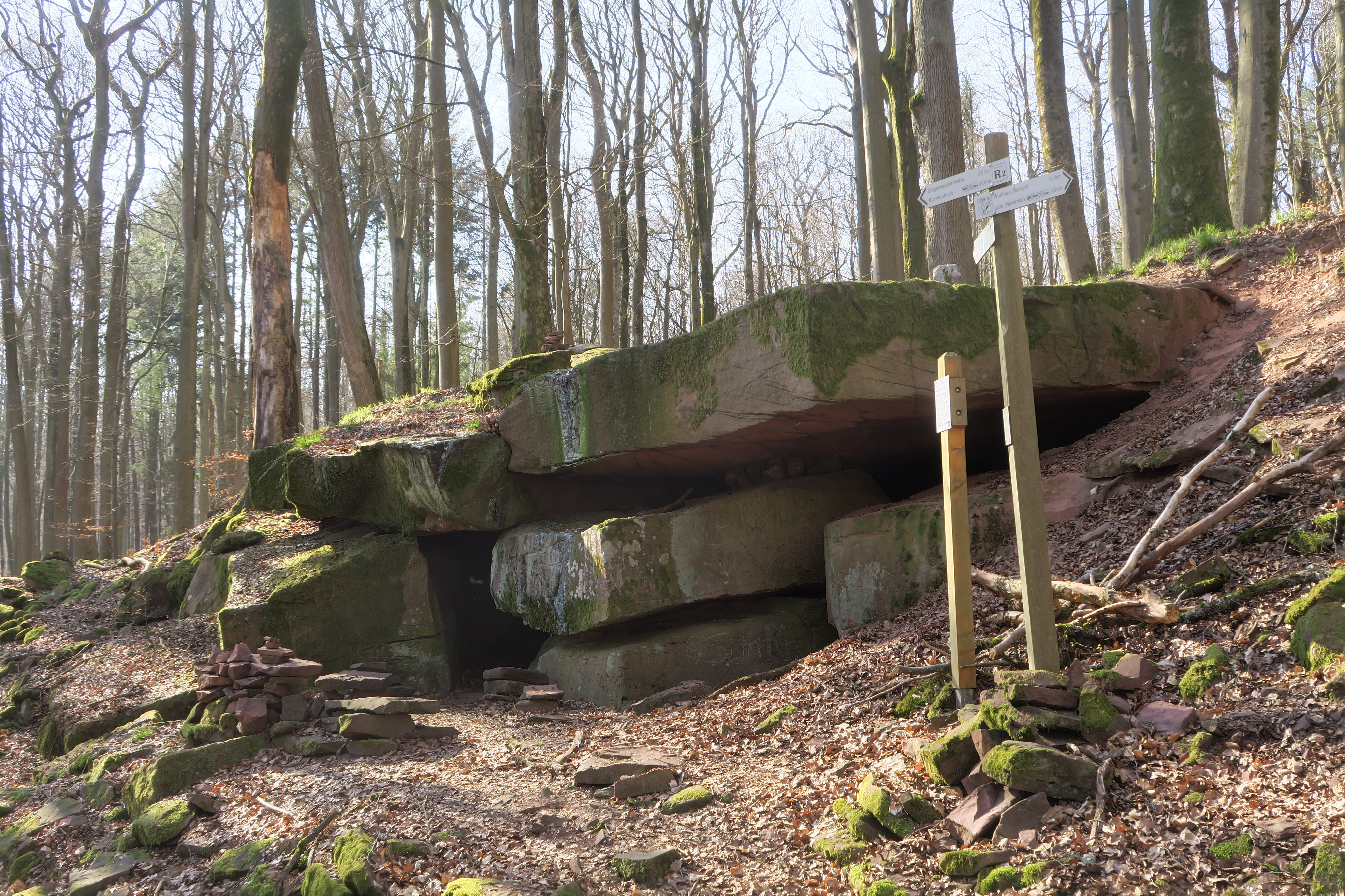 Stone House 1